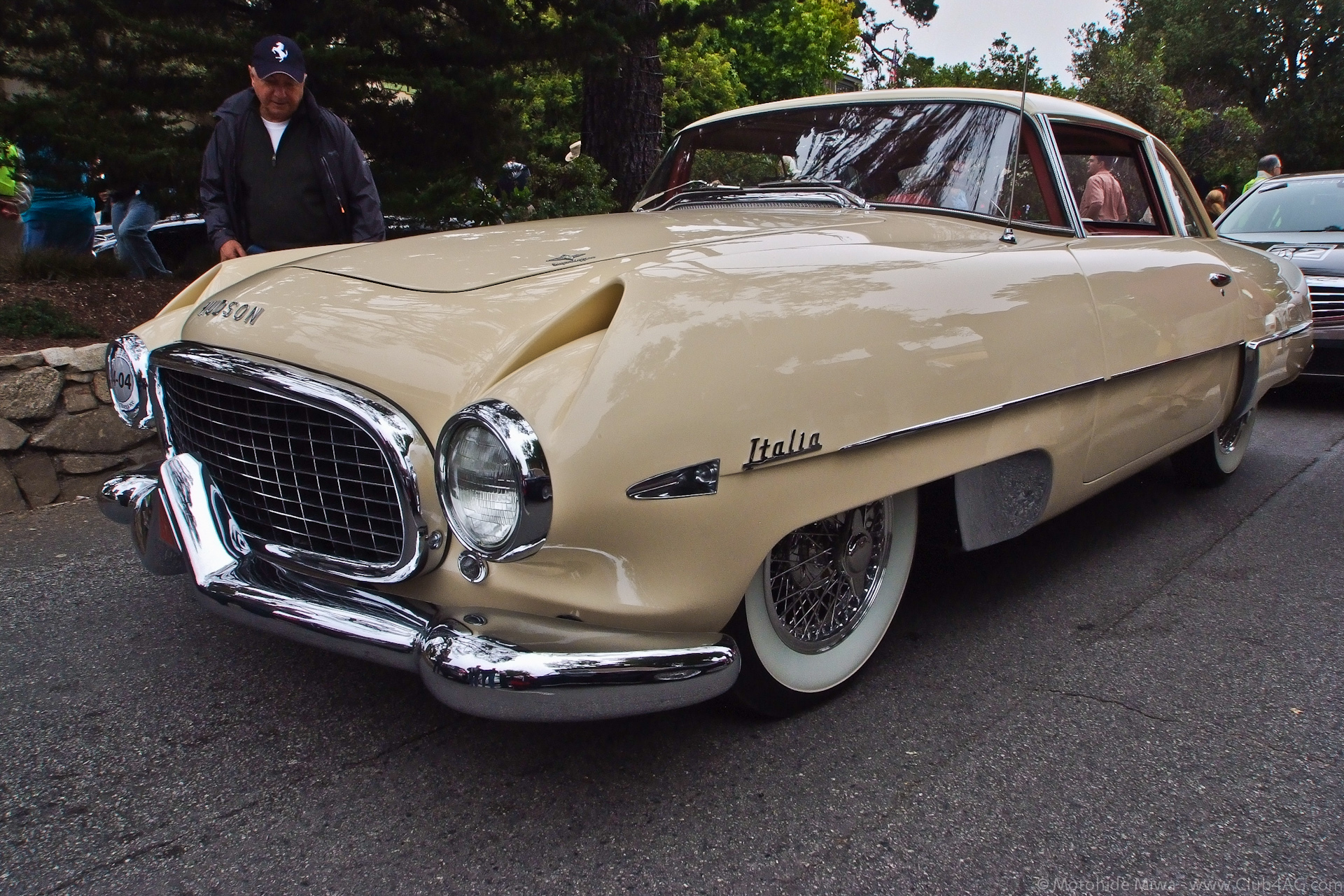 Monterey_Historics_2011-10-151